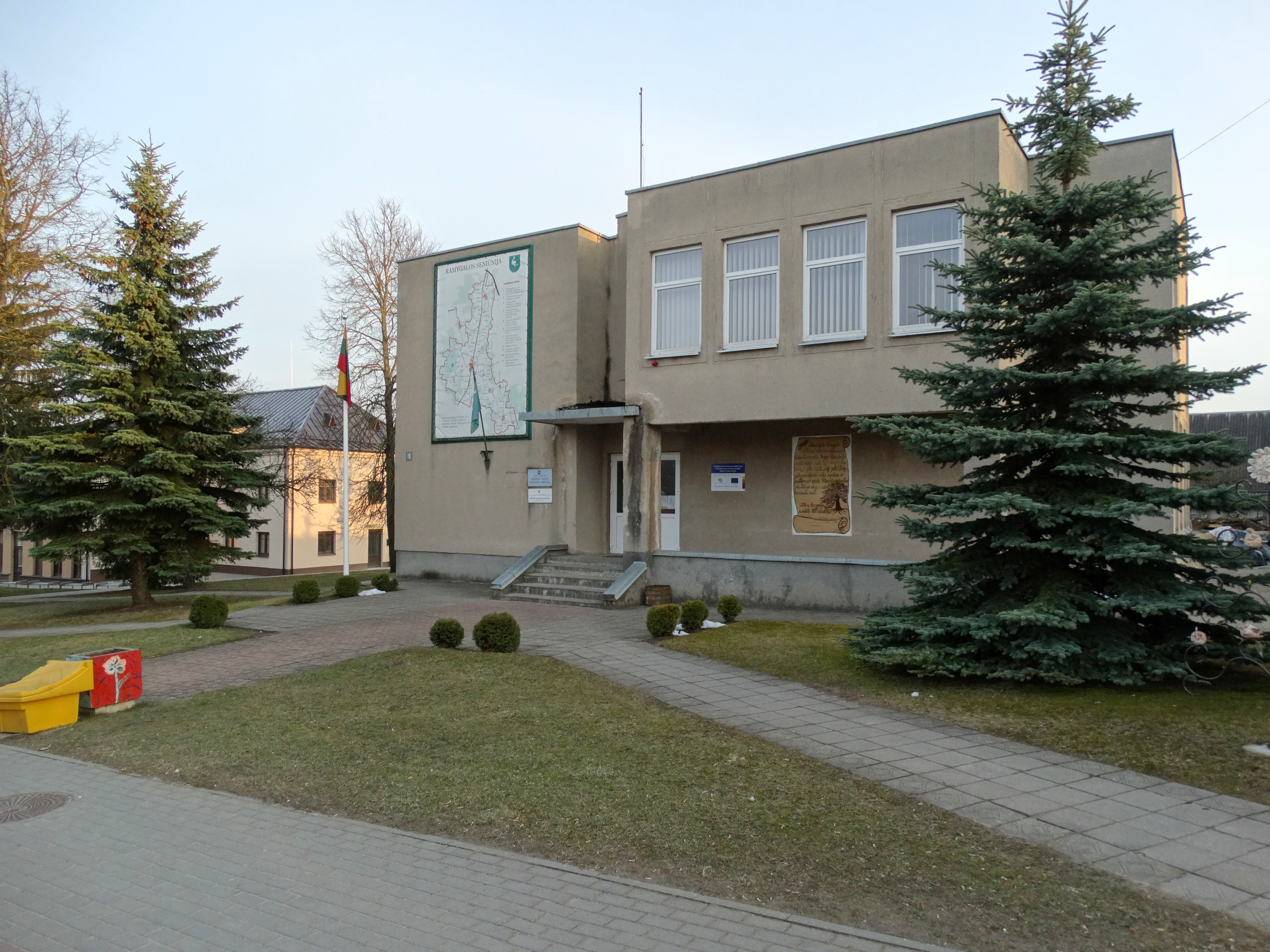 Eldership, Ramygala, Lithuania